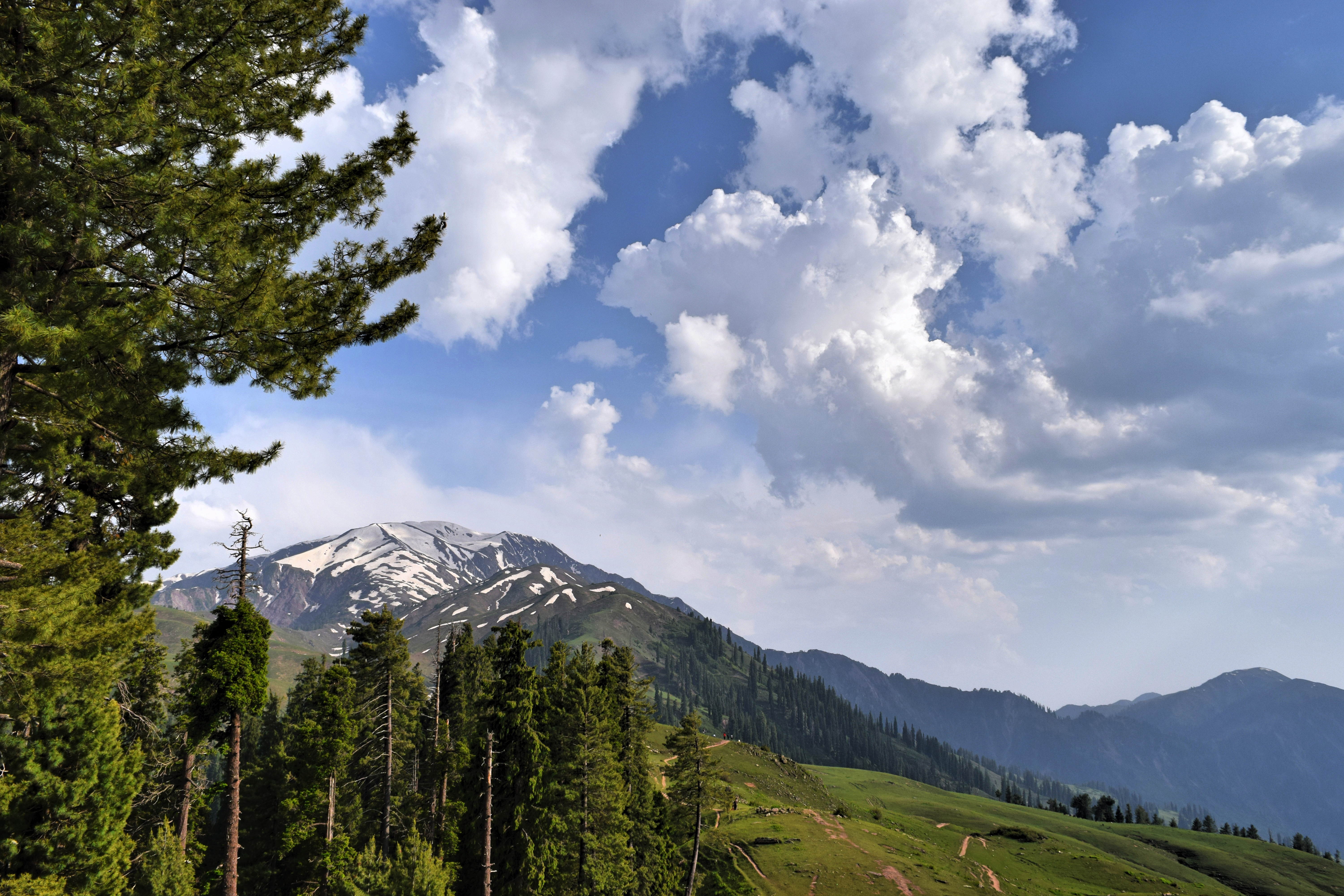 The lush green mountains of Himalayas located in Northern part of Pakistan (Shogran valley) famous for camping and trekking.